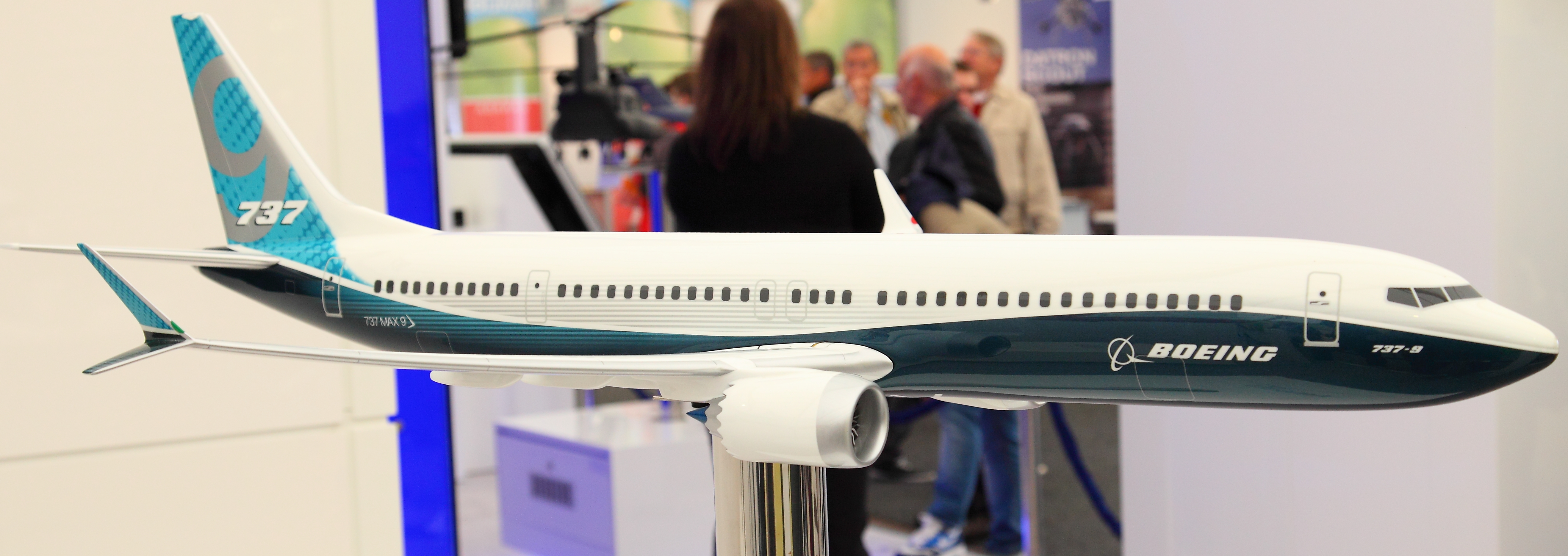 ILA Berlin Air Show 2012 ; Boeing 737-9 MAX (scale 1/40)